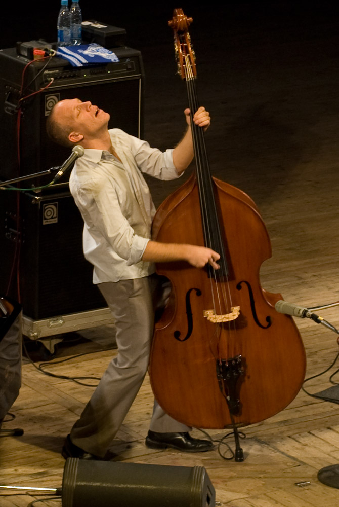 Author is me.